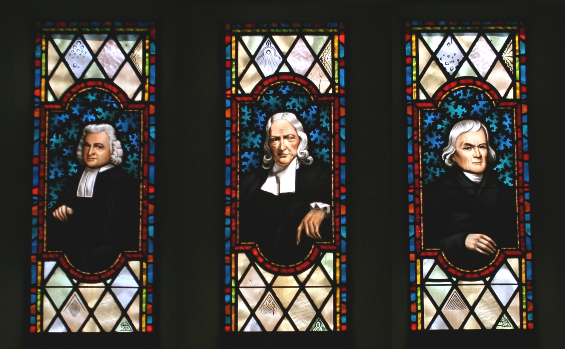 Three early Methodist leaders, Charles Wesley, John Wesley, and Francis Asbury, portrayed in stained glass at the Memorial Chapel, Lake Junaluska, North Carolina